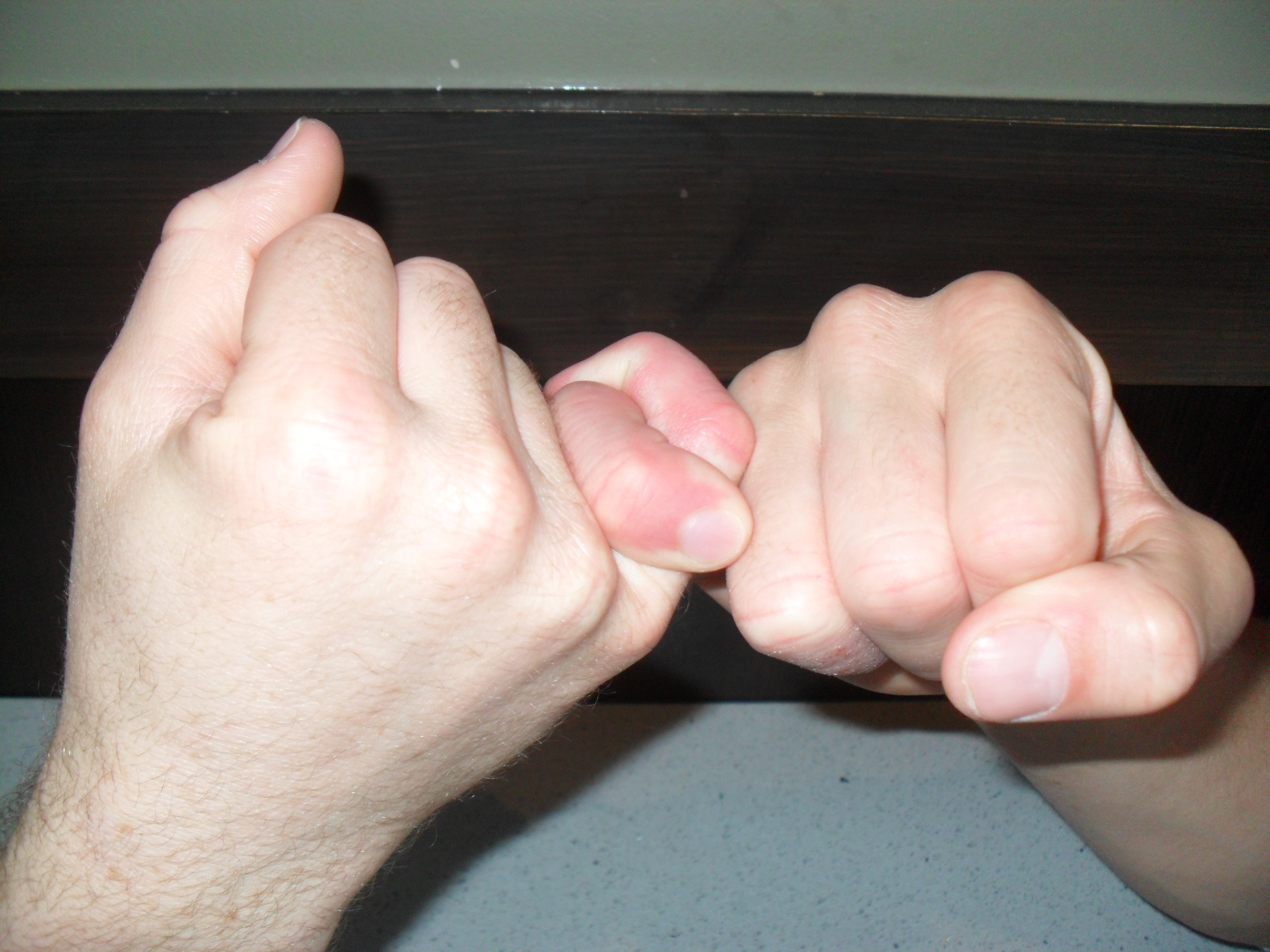 A pinky swear